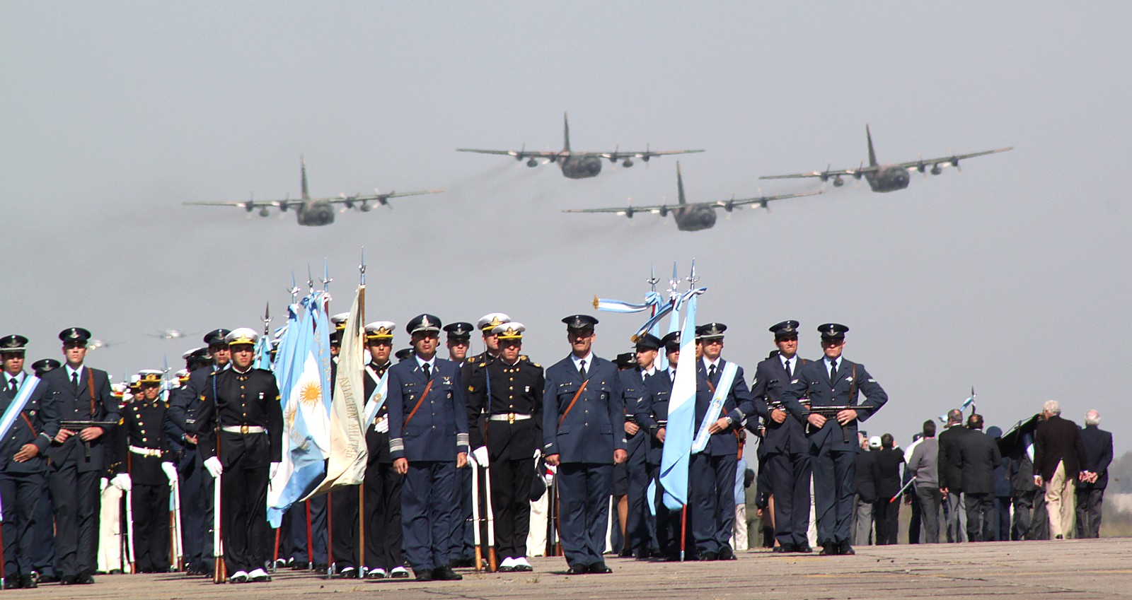 Argentine Air Force C-130 during Air Fest 2010 show at Moron Air Base, Buenos Aires Argentina